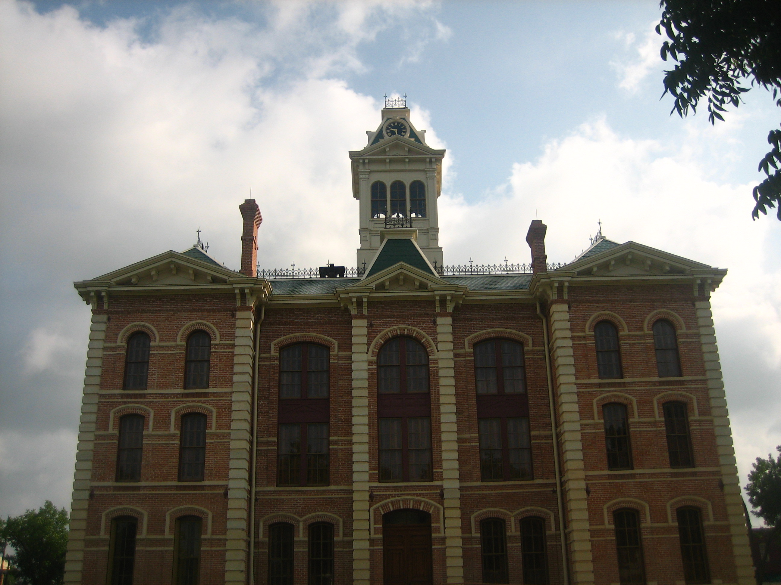 The Wharton County Courthouse in Wharton, Texas, United States. I took photo on July 31, 2008.Billy Hathorn (talk) 18:54, 7 September 2008 (UTC)